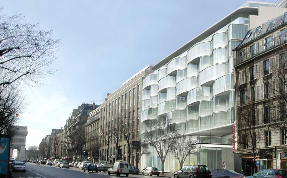 Photo of Renaissance Paris Wagram Hotel, Paris